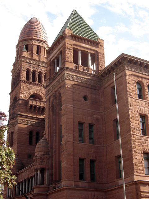 The Bexar County, Texas Courthouse located at 29.4232° -98.4937° in San Antonio, Texas, United States, designed in Romanesque Revival style, was built in 1892. The building was added to the National Register of Historic Places in 1977.